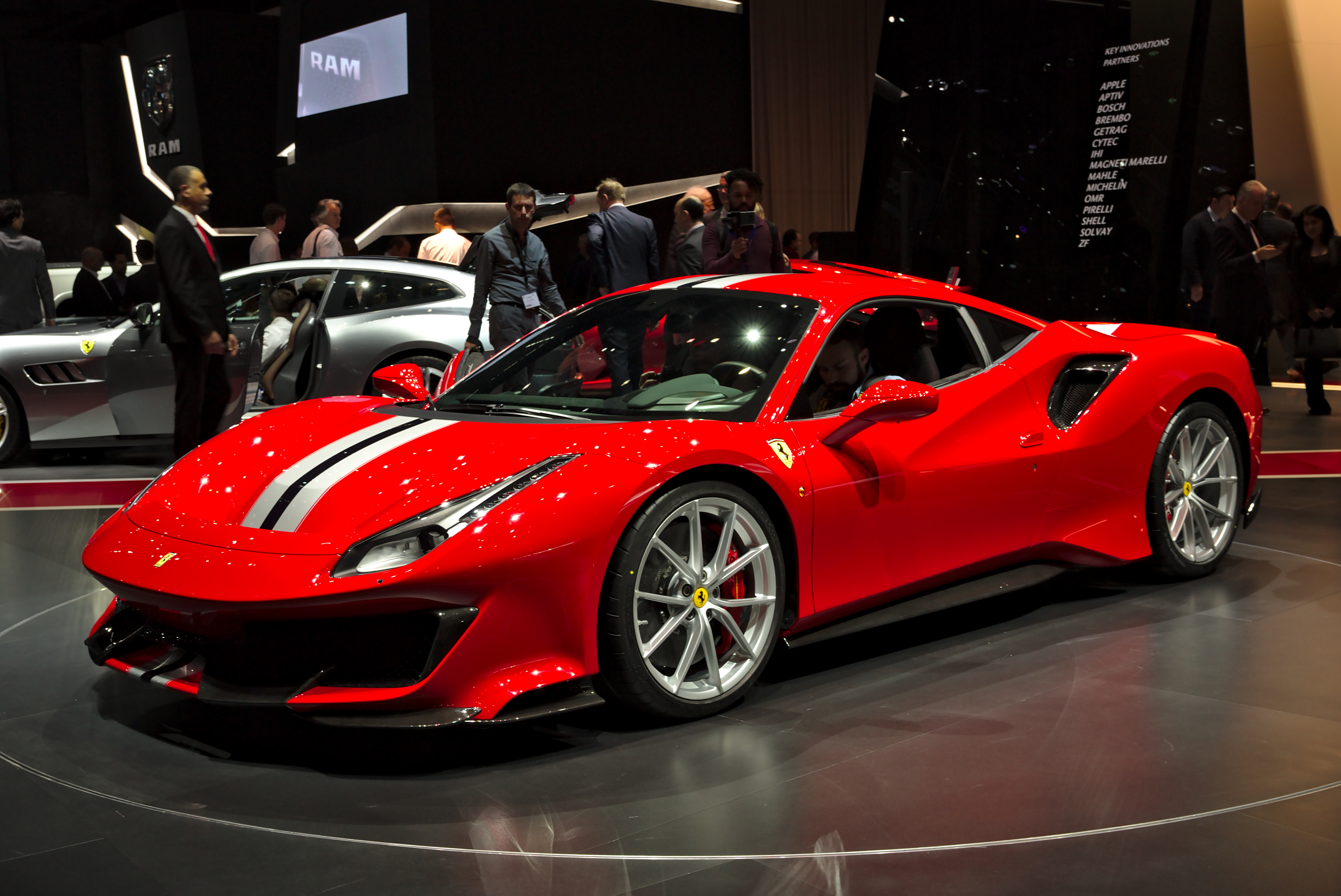 Ferrari 488 Pista at Geneva Motorshow 2018